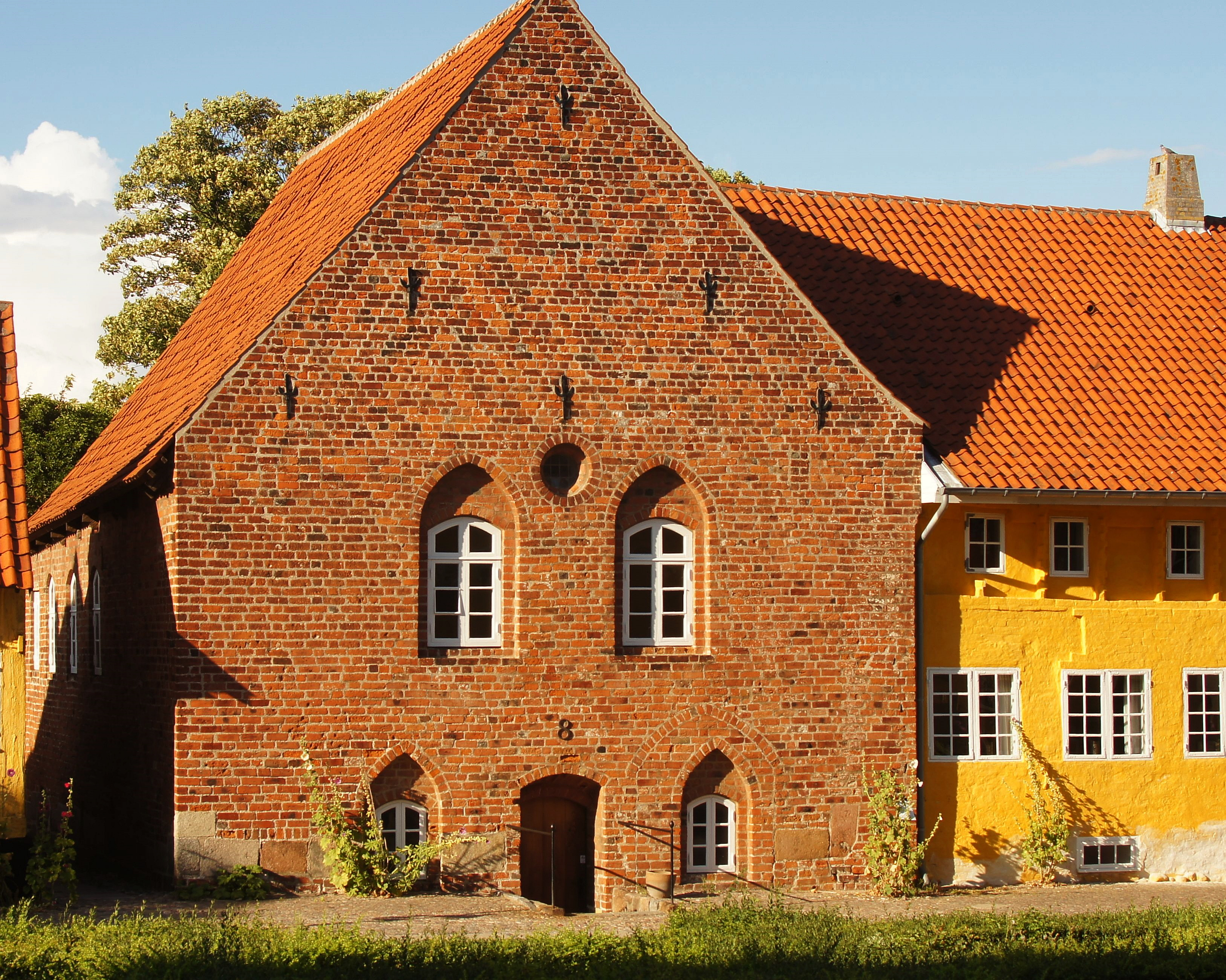 Kalundborg Town Hall 1539-1854 - probably built between 1450-1475